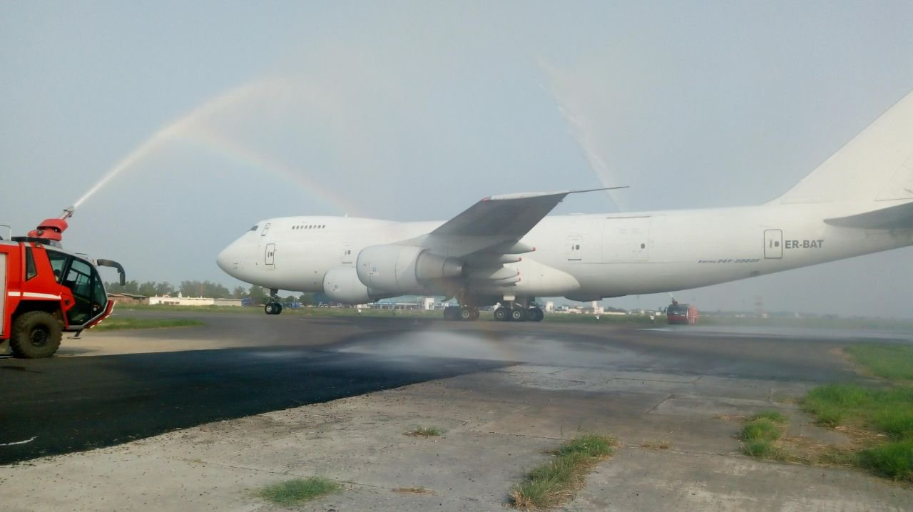 ER-BAT Getting Water Salute at Amritsar Airport